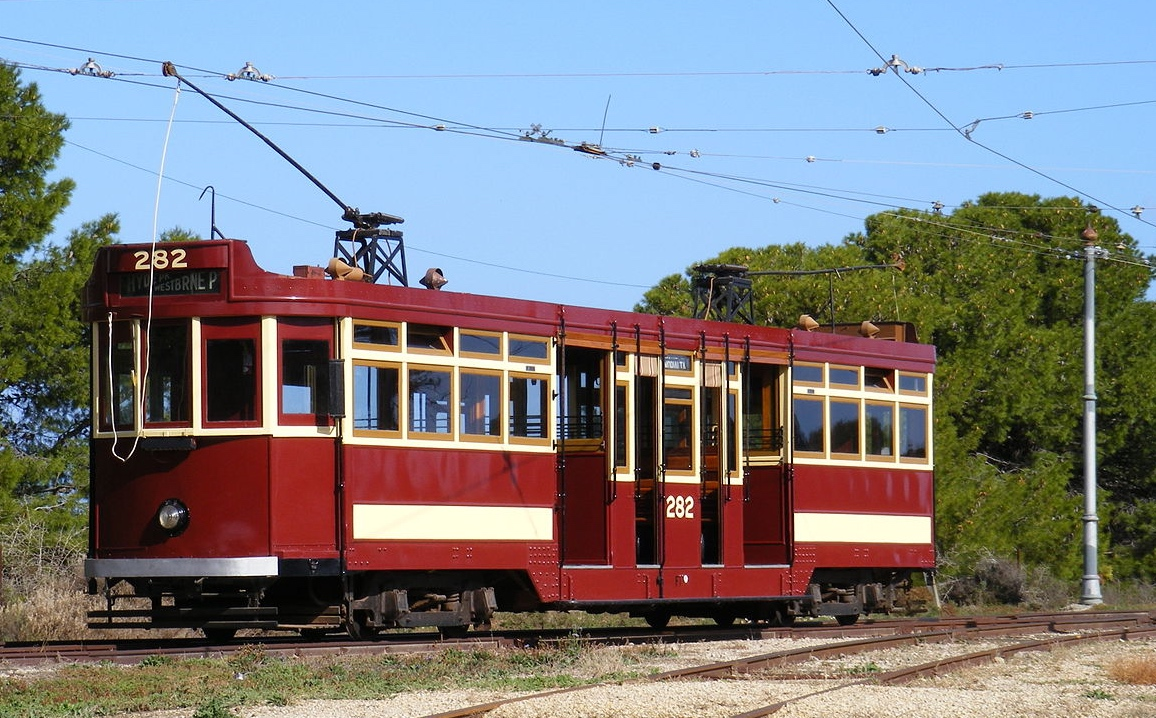 Preserved F1 type tram 282 at the St Kilda Tramway Museum, May 2008.